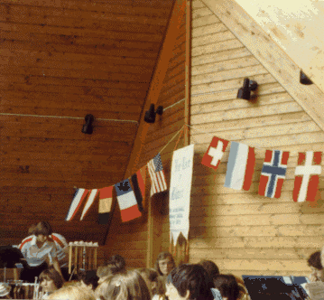 Blue Lake in Bavaria Stage in the Lechbruck West Germany adjacent to the town square in 1981